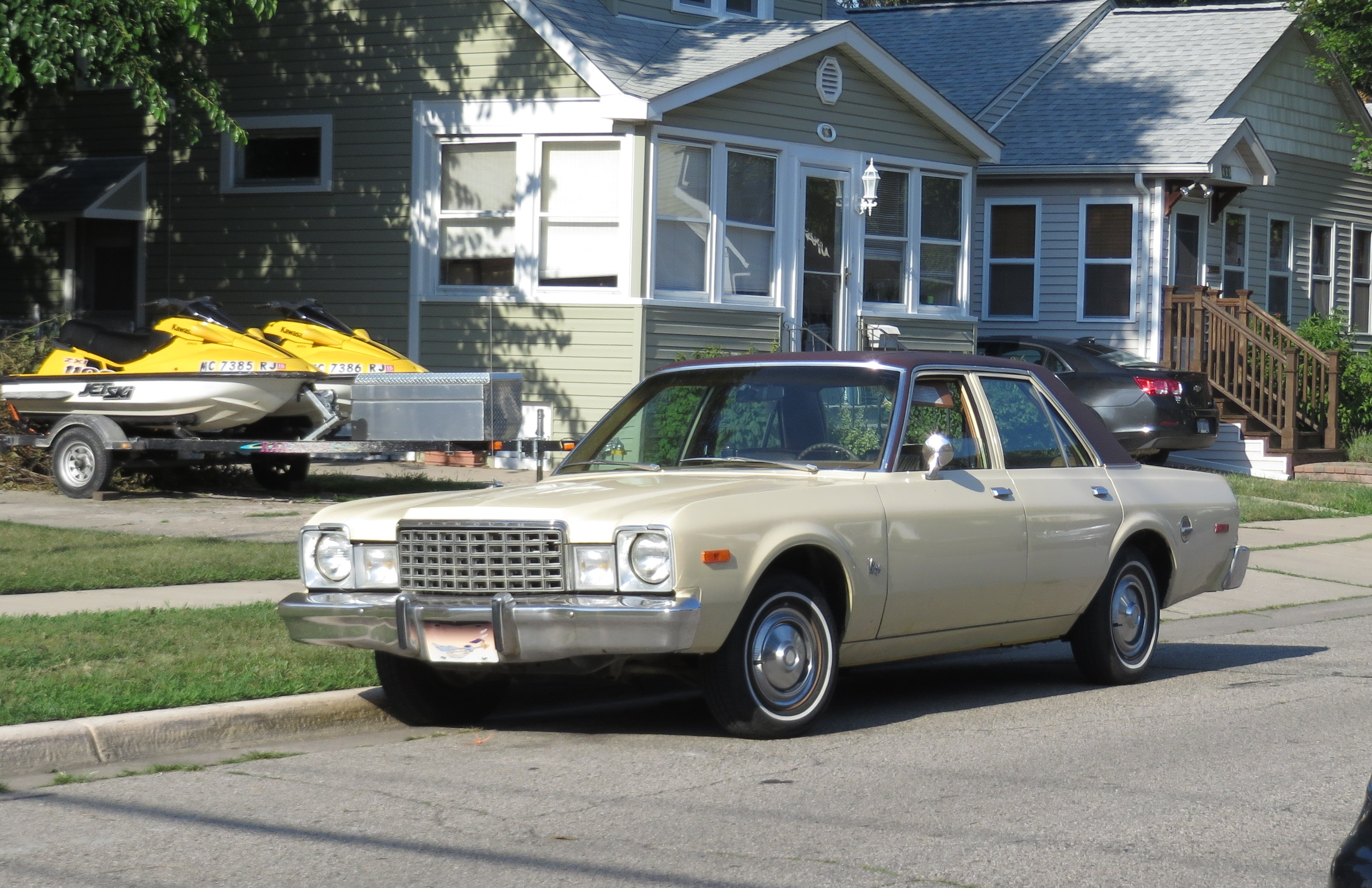 Volare base